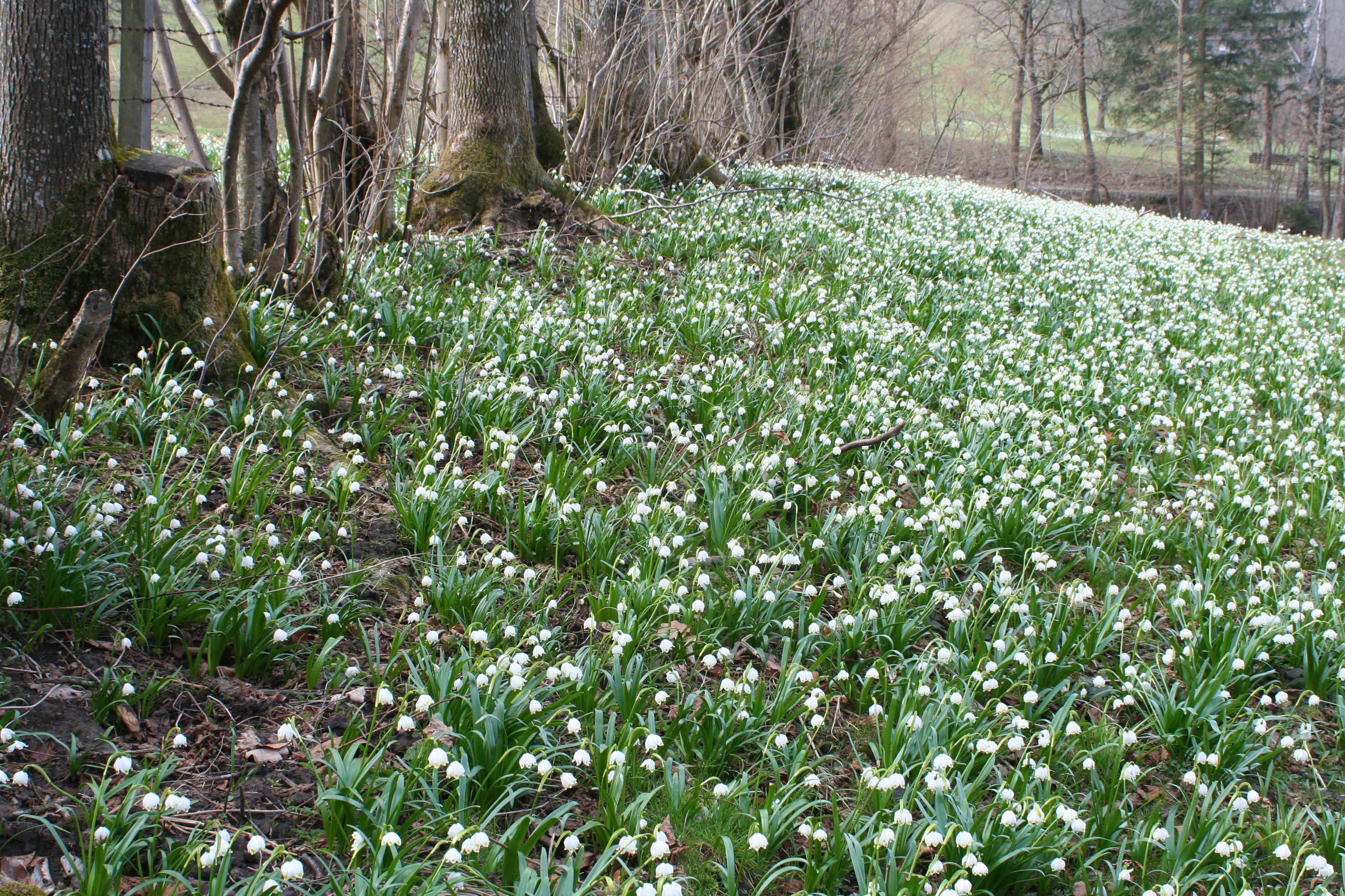 Leucojum vernum in the Ybbstal near Hollenstein an der Ybbs, Lower Austria